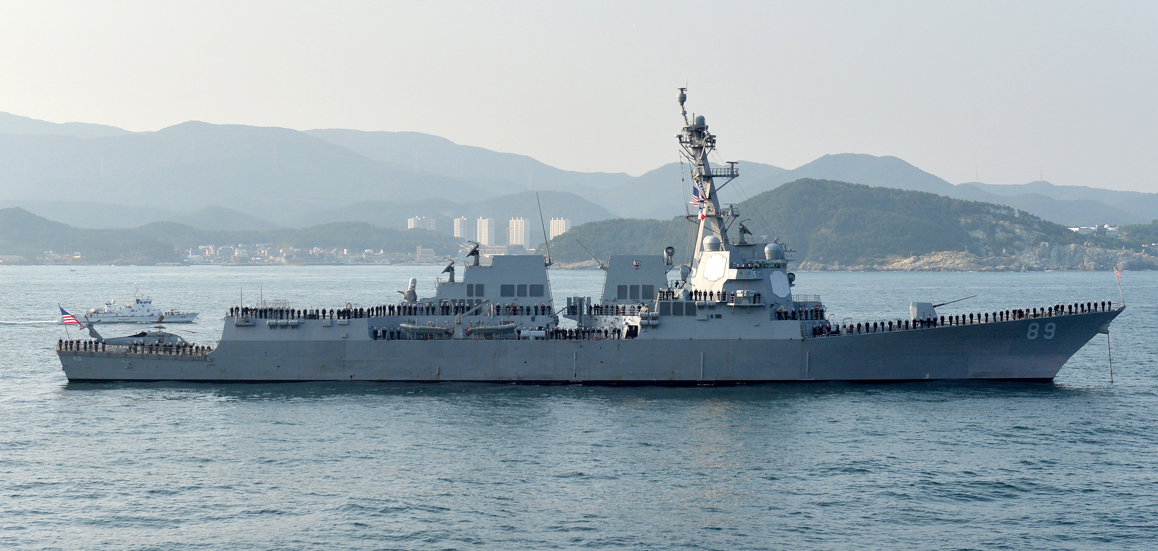 USS Mustin (DDG-89) participating the Republic Of Korea Navy's Fleet Review 2015.